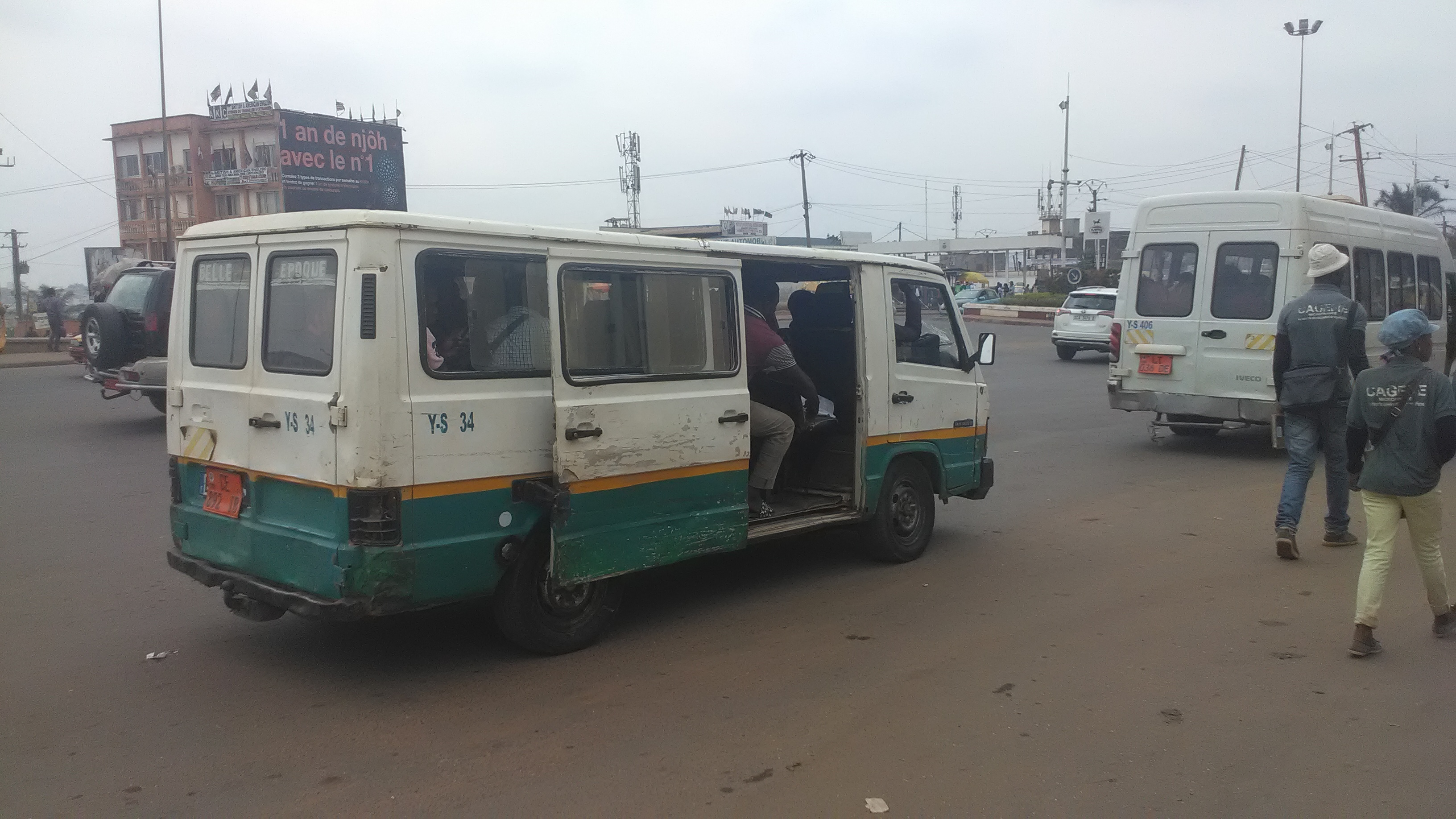 This is an image with the theme "Africa on the Move or Transport" from: Cameroon